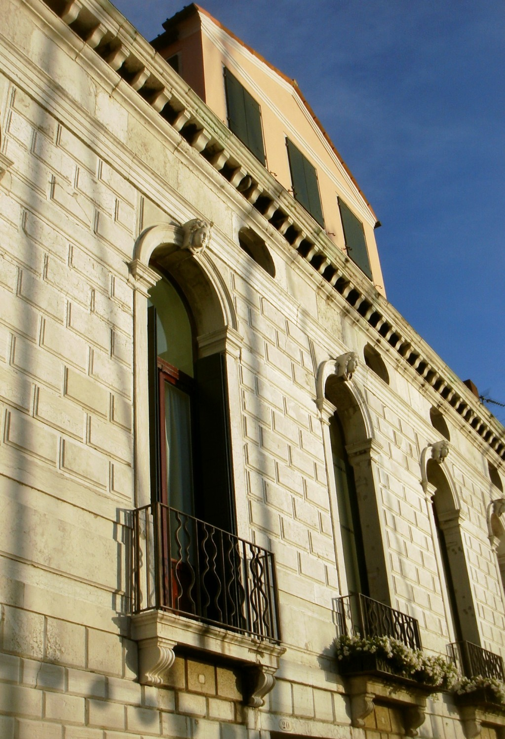 Giudecca: Palazzo Mocenigo